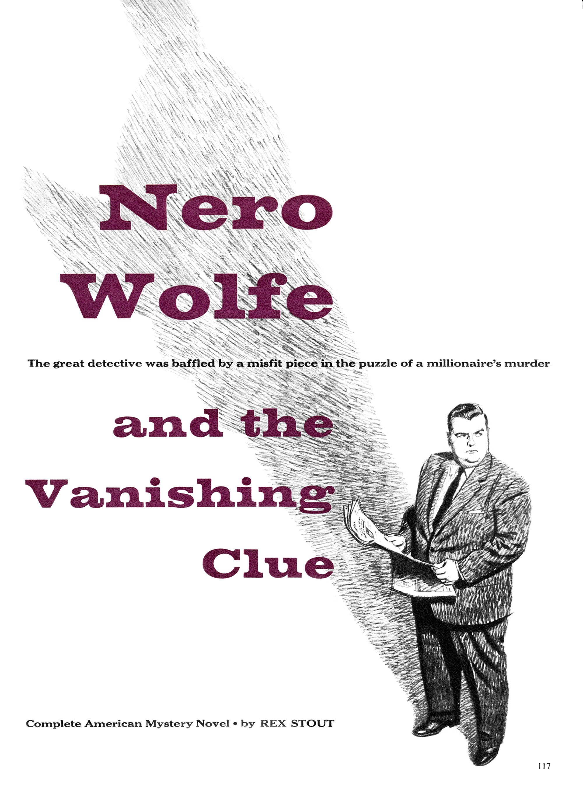 Lead illustration from The American Magazine printing of "A Window for Death", a Nero Wolfe short story by Rex Stout that first appeared under the title "Nero Wolfe and the Vanishing Clue"